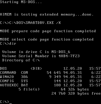 Dir command result.